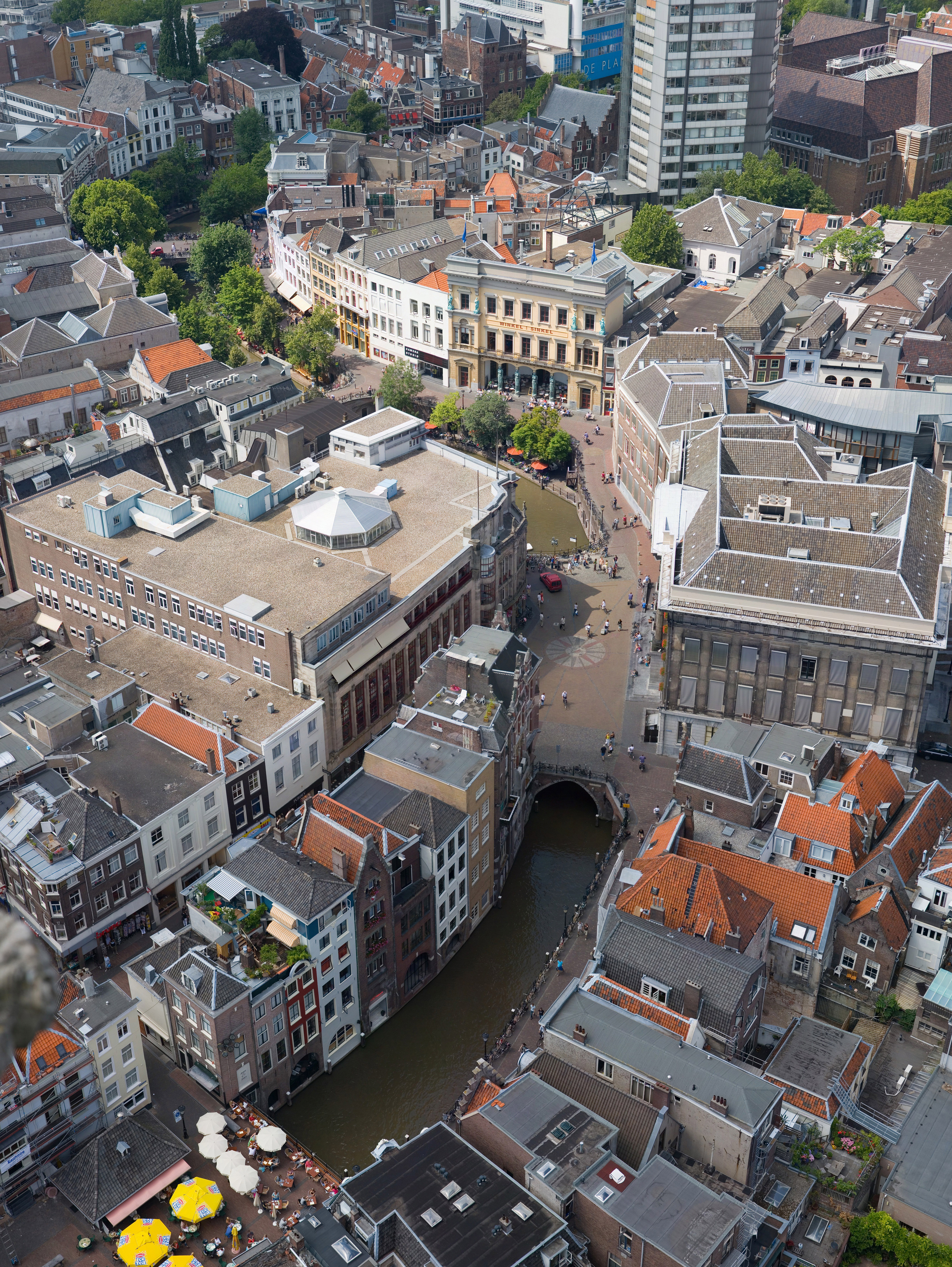 A view of a canal in central Utrecht. Viewed from the Dom Tower. This is a high resolution, multi-segment mosaic image. Taken with a Canon 5D and 24-105mm f/4L IS lens.